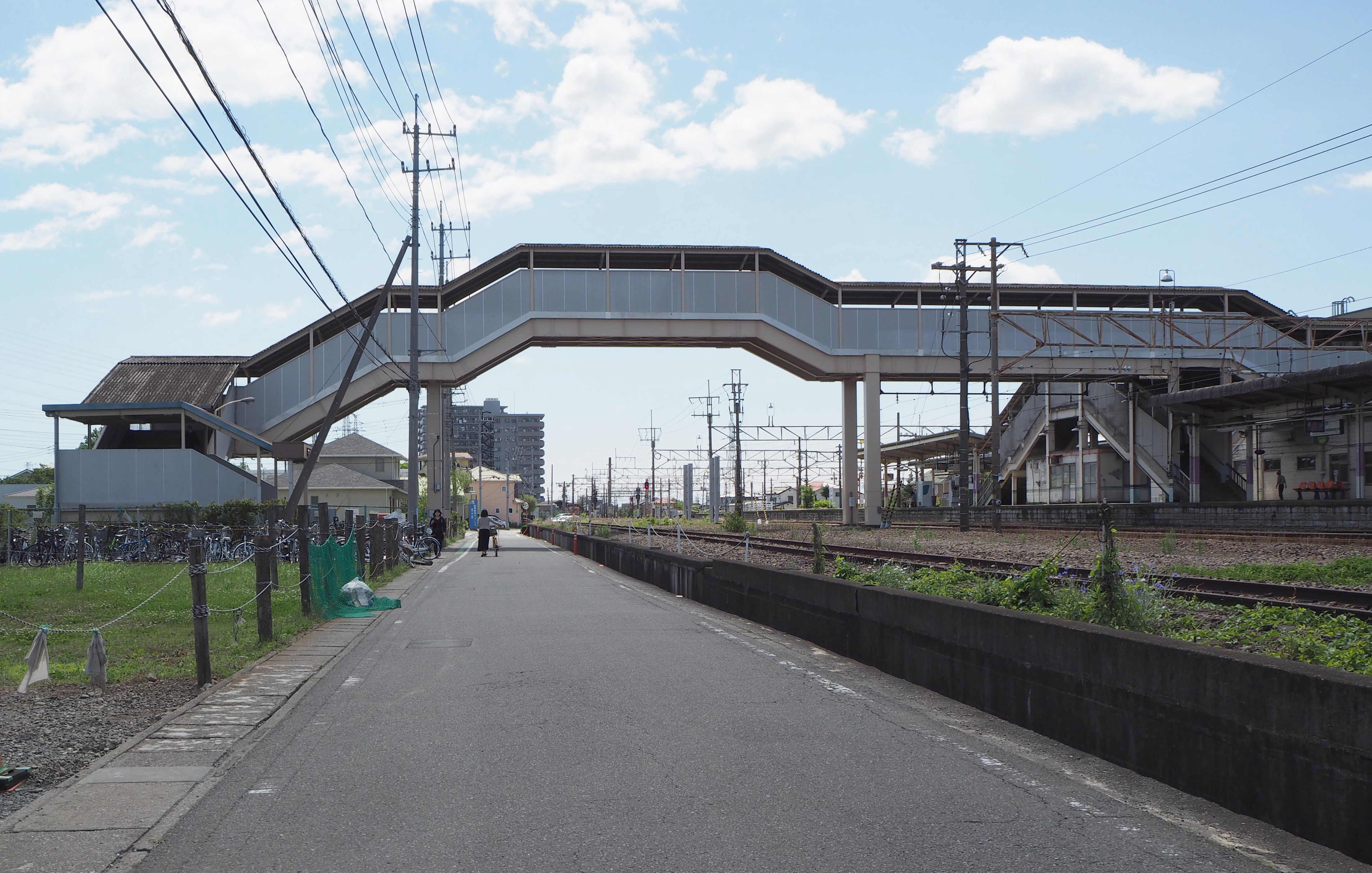 North Entrance of Kuragano Station